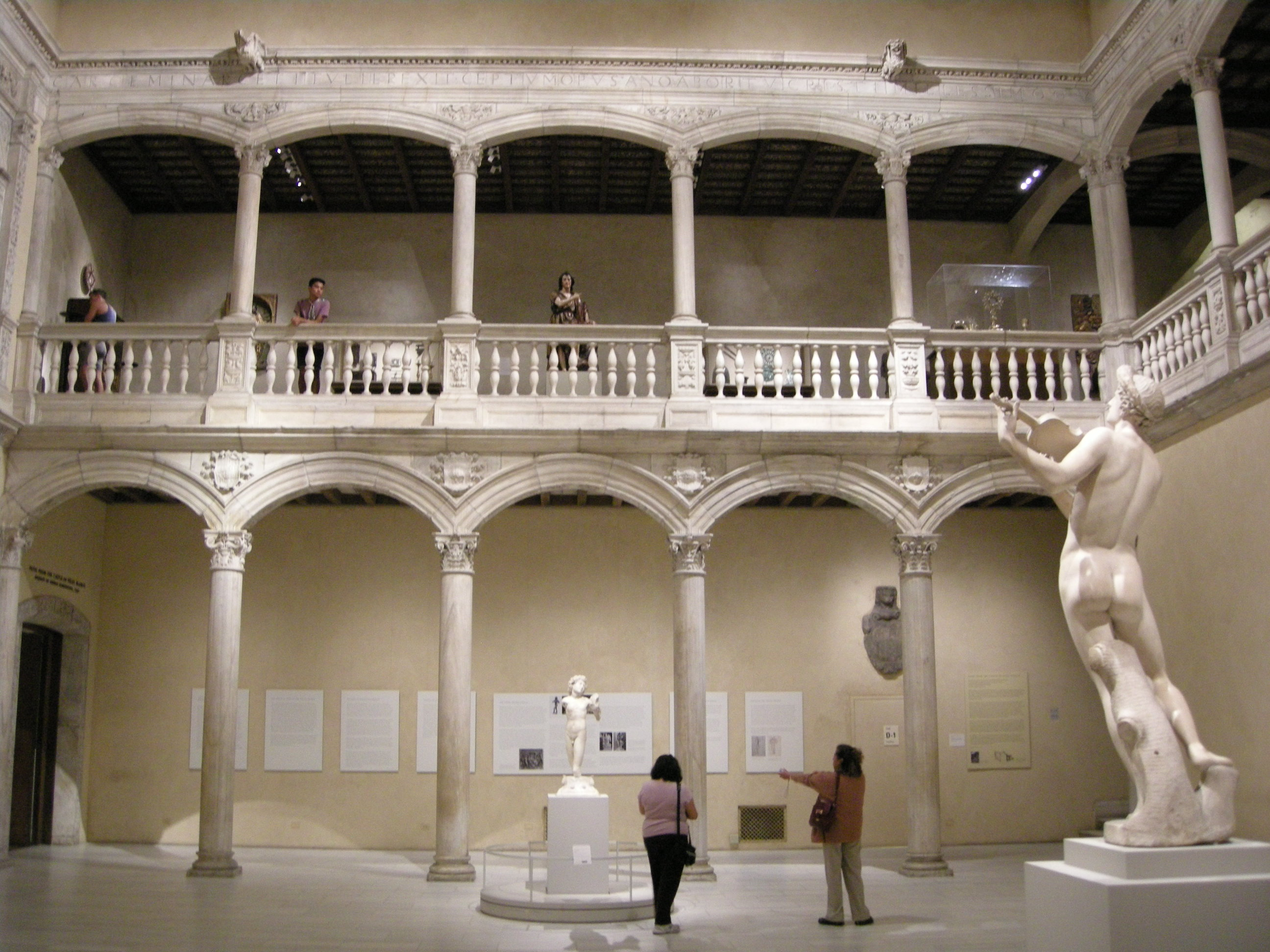 Met, patio from the castle of vélez blanco